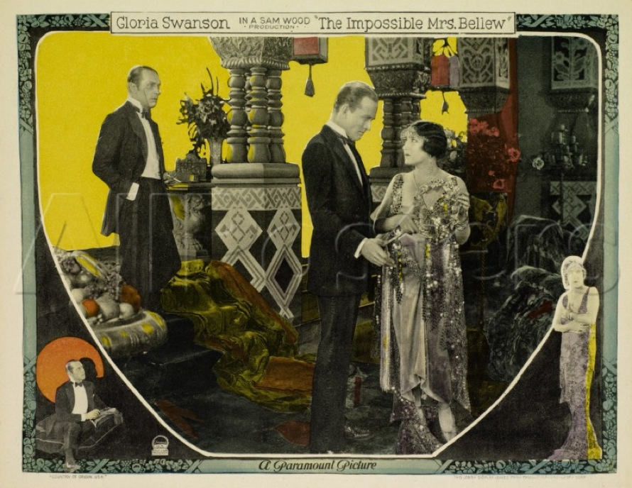 The Impossible Mrs. Bellew．Movie poster for The Impossible Mrs. Bellew (1922) featuring Robert Cain, Conrad Nagel and Gloria Swanson